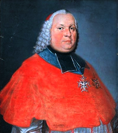 Portrait of Adam Ignacy Komorowski